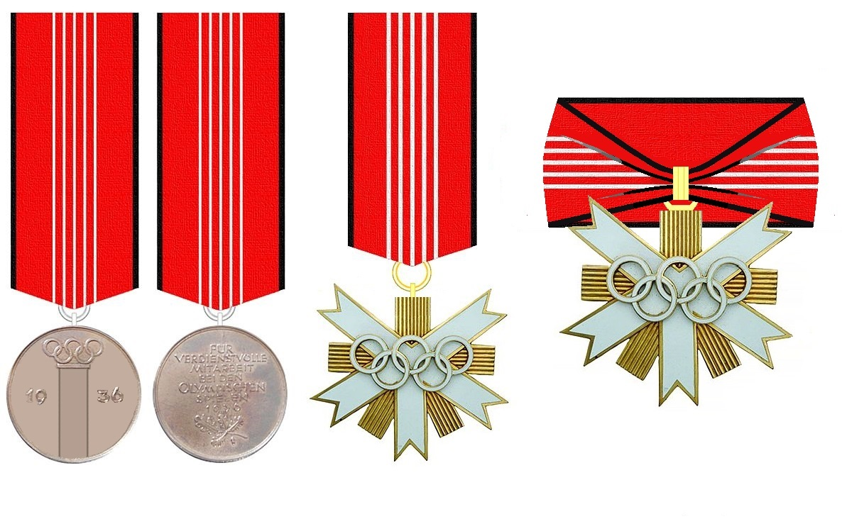 The German Olympic Decoration awarded to administrators of the IV Olympic Winter Games in Garmisch-Partenkirchen and the Games of the XI Olympiad in Berlin 1936 (from 1957) German Olympic Memory Medal (frontside/backside) 2nd Class 1st Class